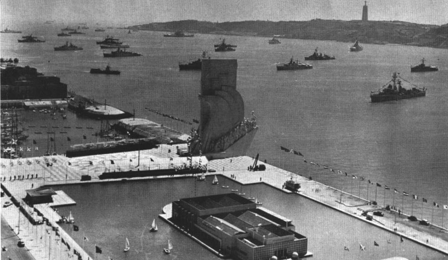 View of the Padrão dos Descobrimentos (Monument to the Discoveries) on the northern bank of the Tagus River estuary, Lisbon, Portugal, at the time of its inauguration, on 9 August 1960. 32 ships of 14 nations were present.